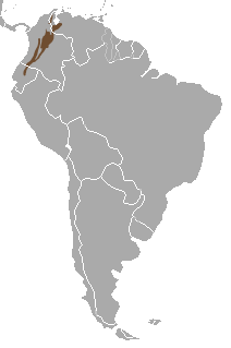 Mountain Coati (Nasuella olivacea) range